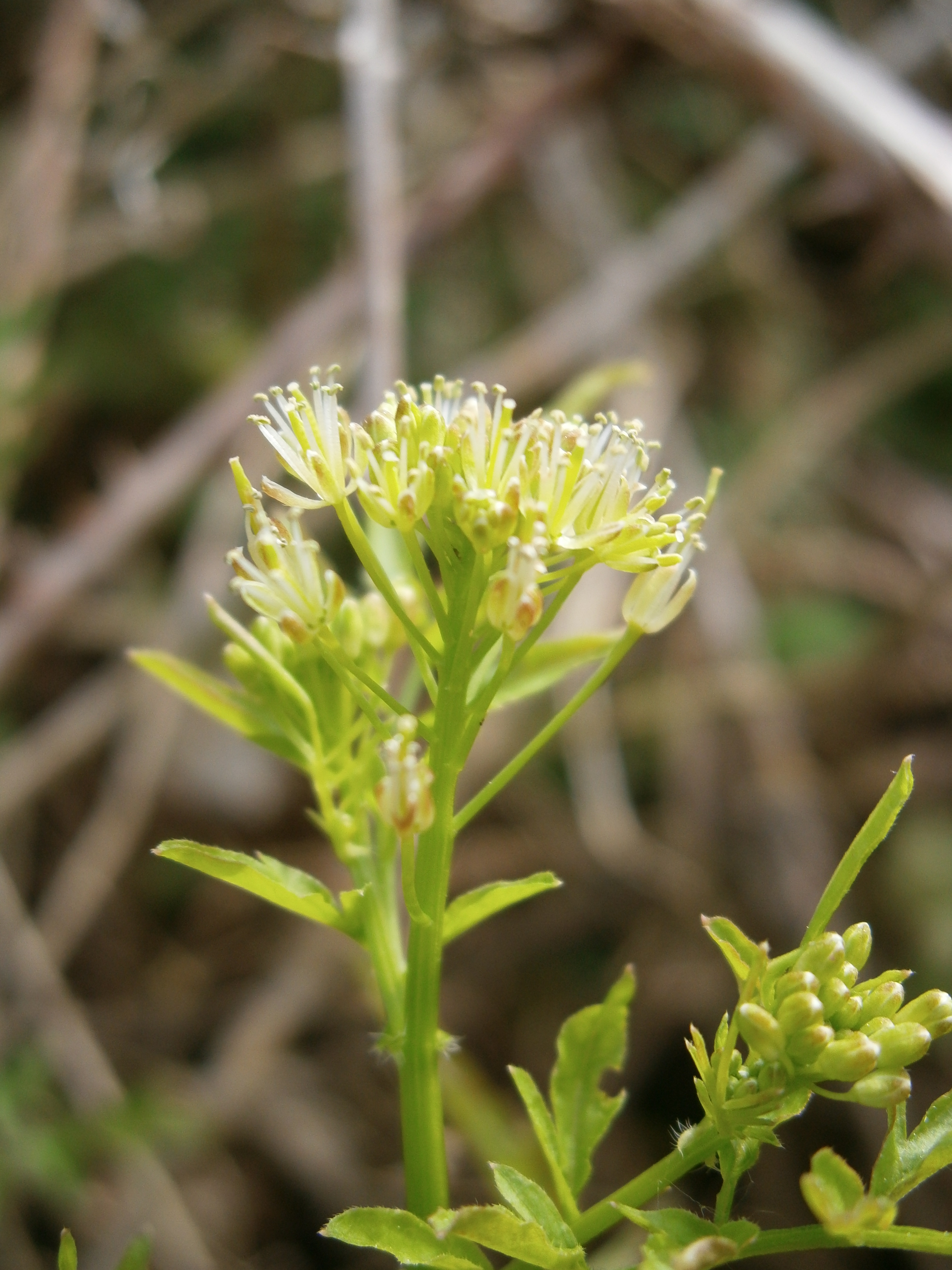 Cardamine impatiens close-up flowers